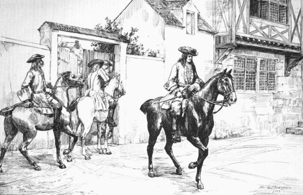 Roxana, The Brewer and his men, p. 12, project Gutemberg.